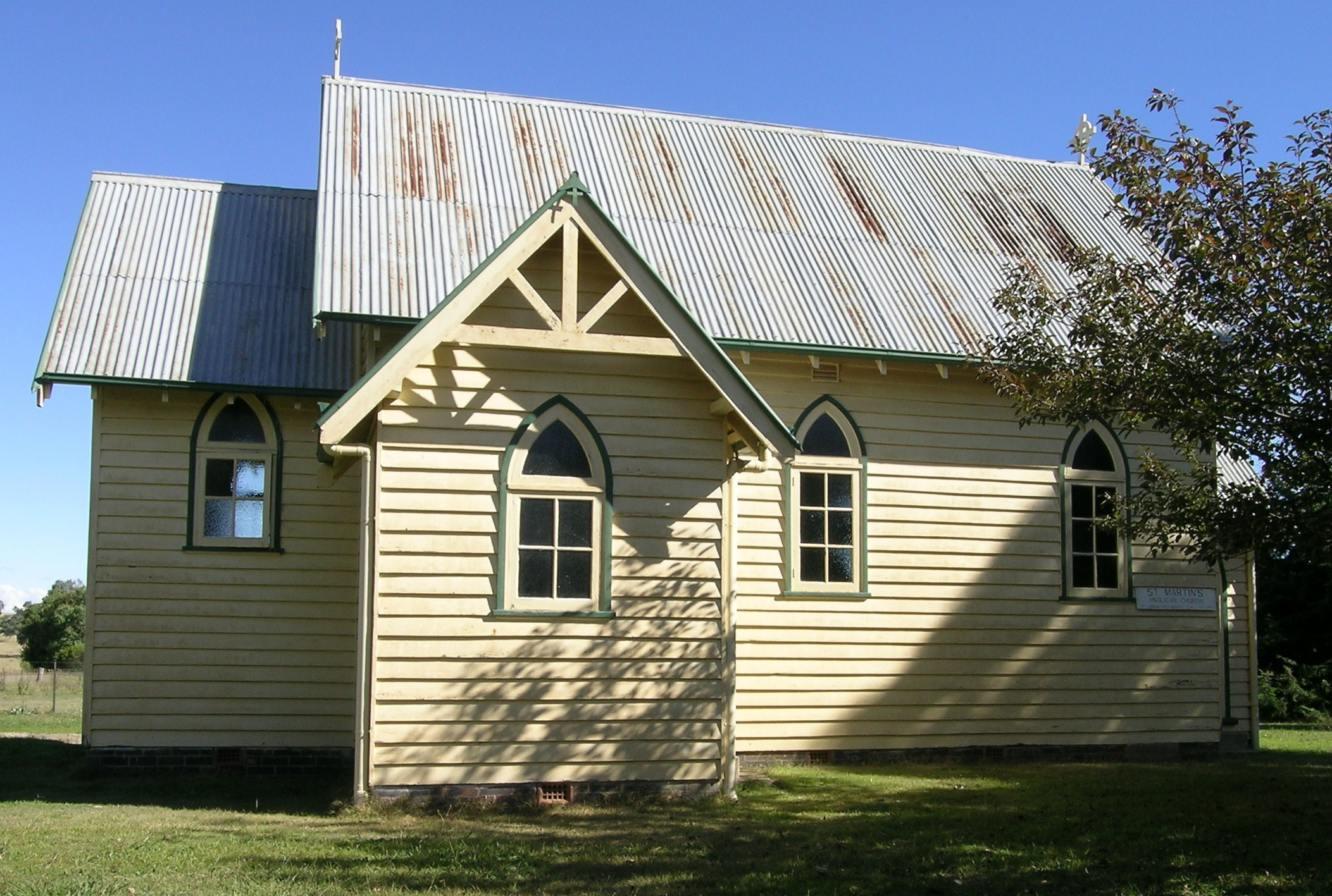 St martins Church, Wollun, NSW